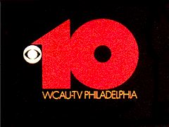 Old logo for WCAU